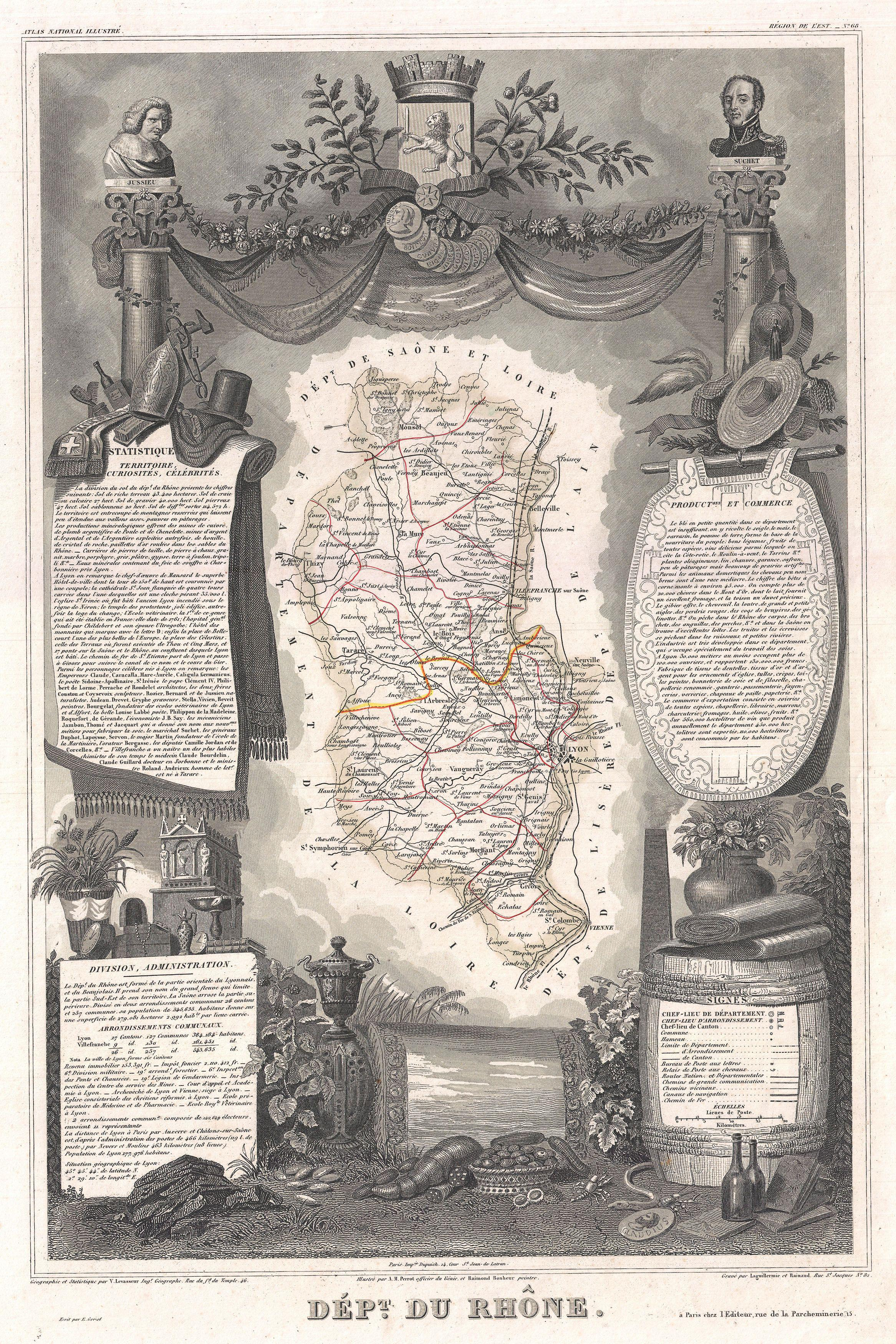 This is a fascinating 1852 map of the French department of Rhone, France. This area produces the French AOC wine, Beaujolais. This wine is generally made of the Gamay grape which has a thin skin and is low in tannins. It is typically a light-bodied red wine. The map proper is surrounded by elaborate decorative engravings designed to illustrate both the natural beauty and trade richness of the land. There is a short textual history of the regions depicted on both the left and right sides of the map. Published by V. Levasseur in the 1852 edition of his Atlas National de la France Illustree.